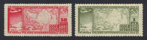 Stamp of USSR